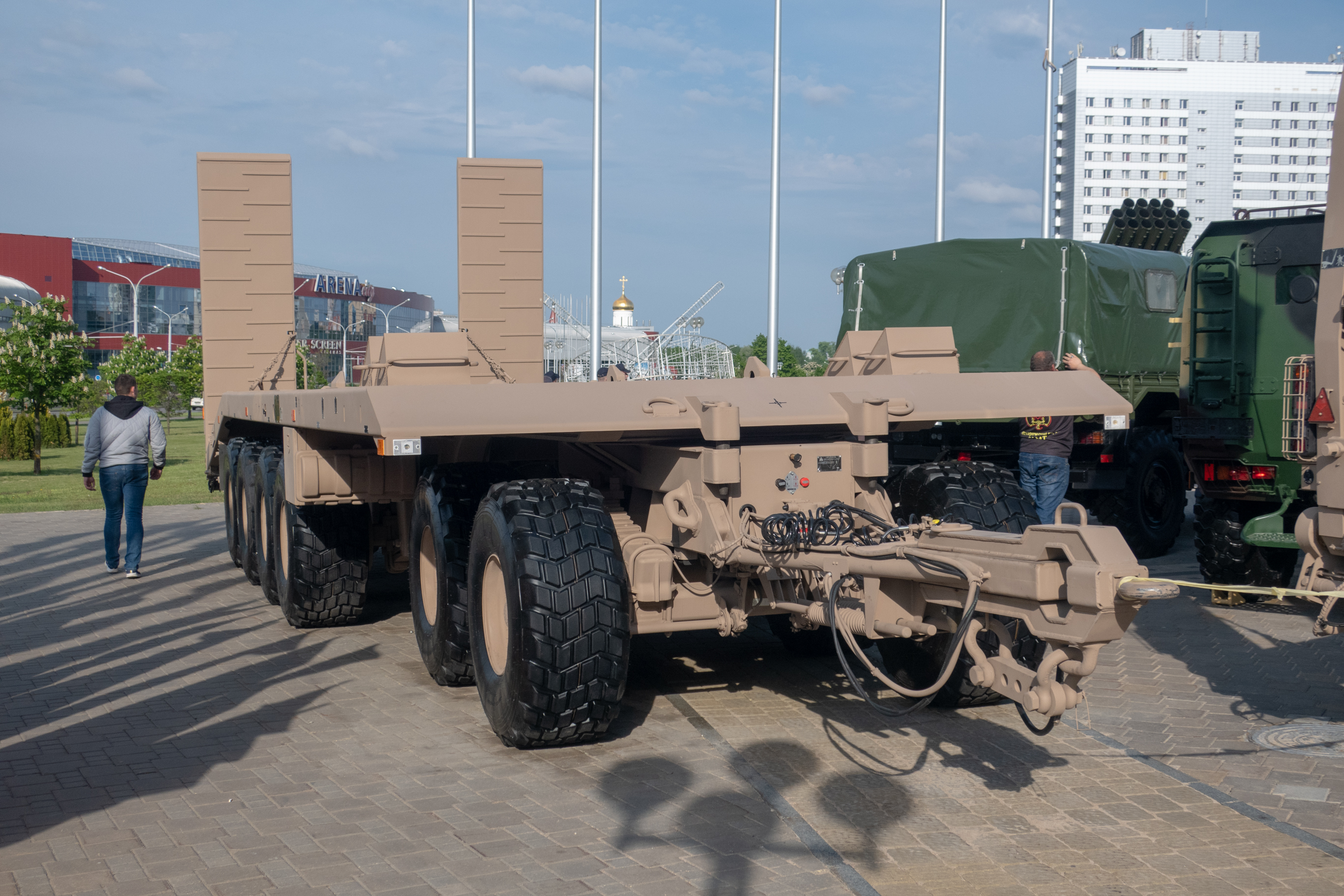 Second trailer MZKT-837211 of the Belarusian tank transporter MZKT-741351